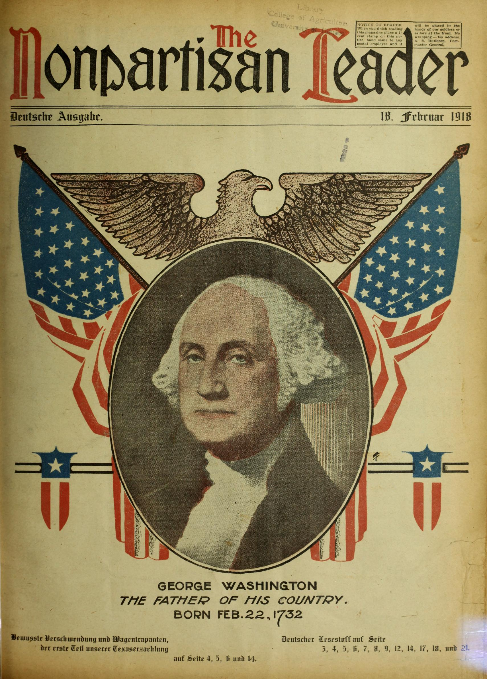 Cover of The Nonpartisan Leader.